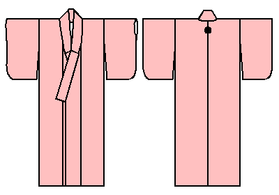 Stylized Kimono with one Kamon, which is less formal than Kimono with three or five Kamons.